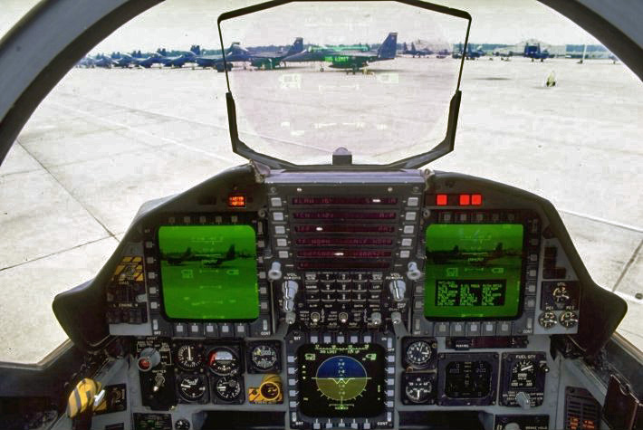 F-15E front cockpit